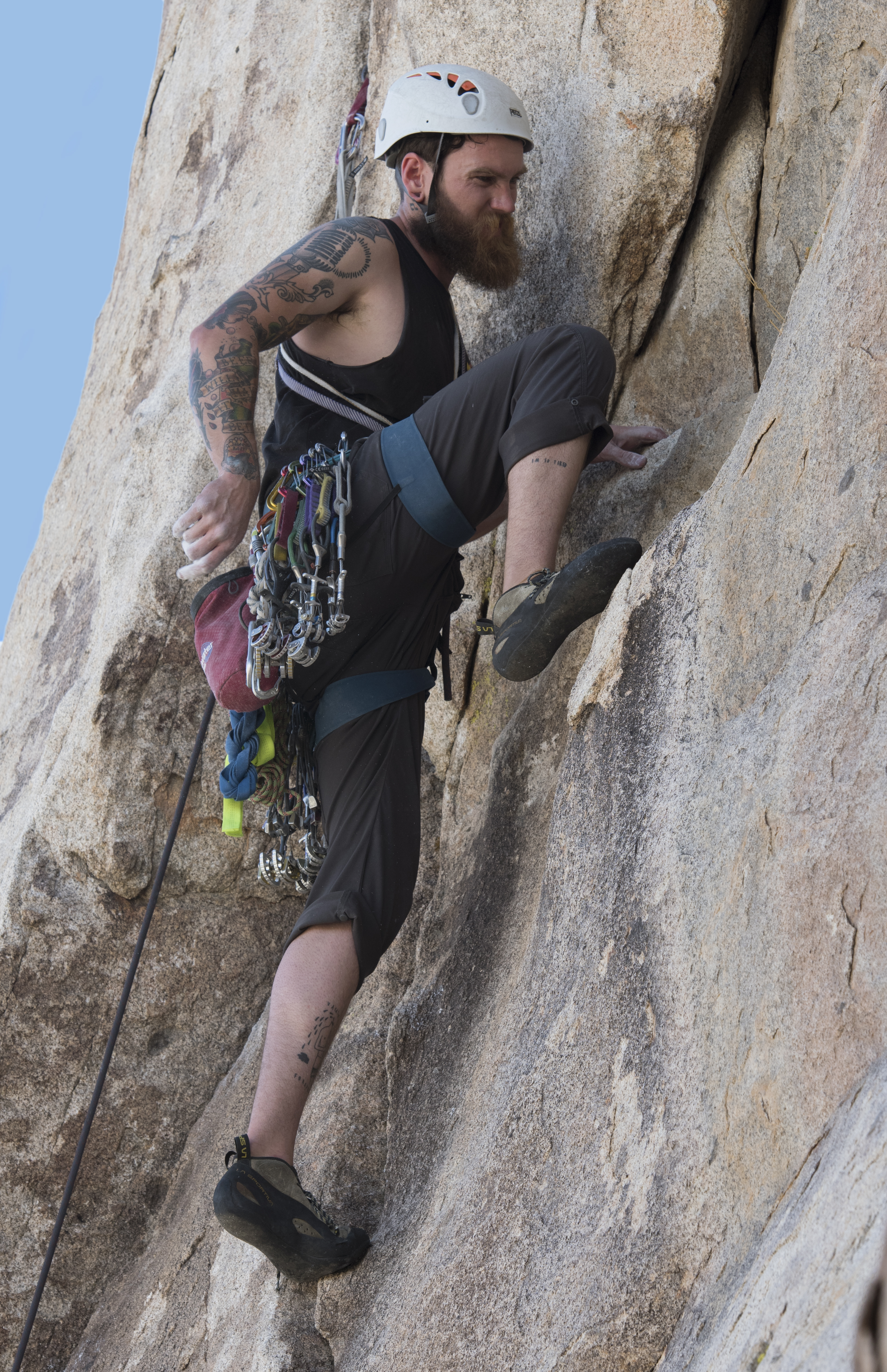 Climbing in Joshua Tree National Park